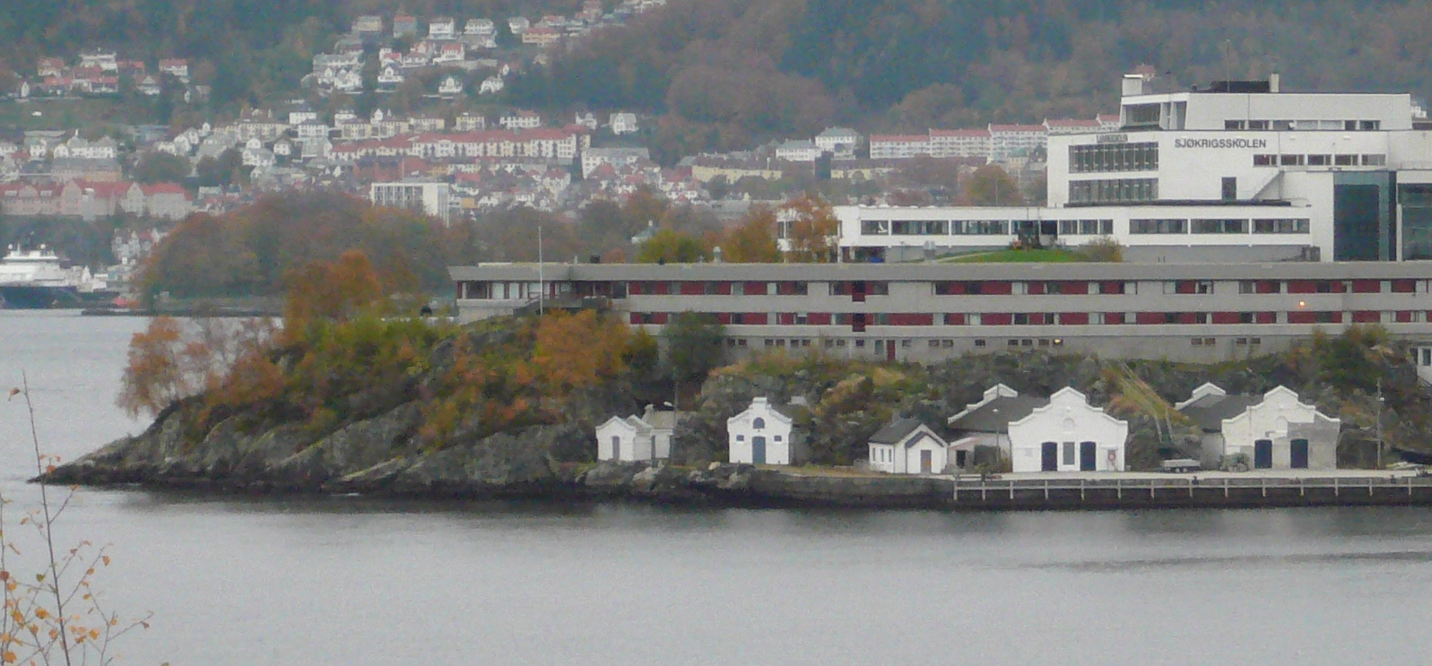 Wallemsviken, Bergen, Norway